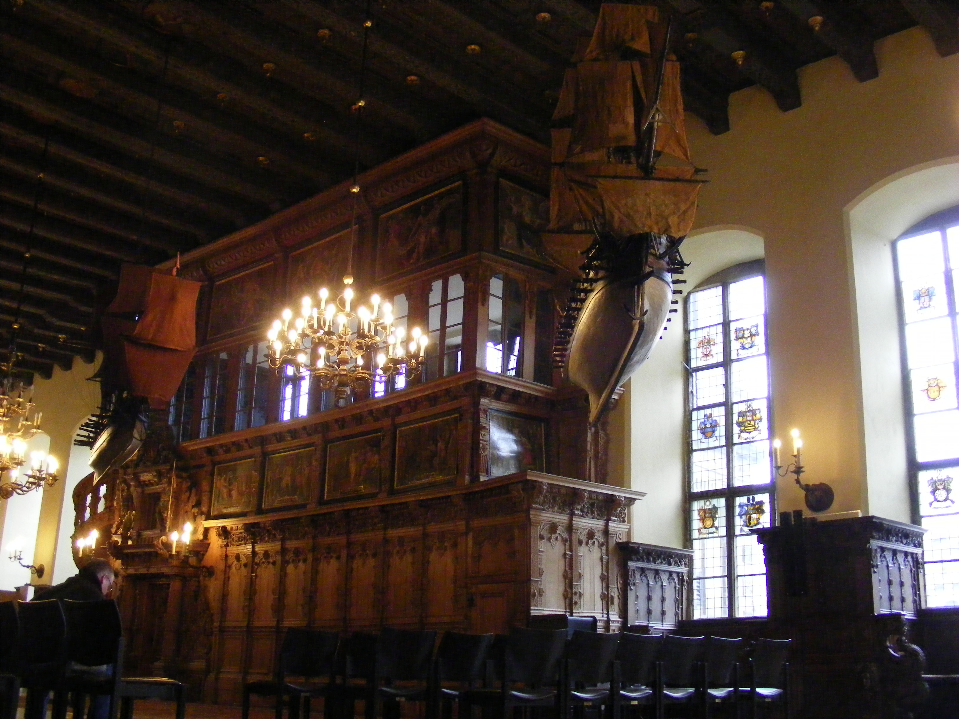 Upper Hall of the Townhall of Bremen, seen from north to south, with the Güldenkammer (Golden Chamber) and obove it the old archive in the Renaissance vant-corps